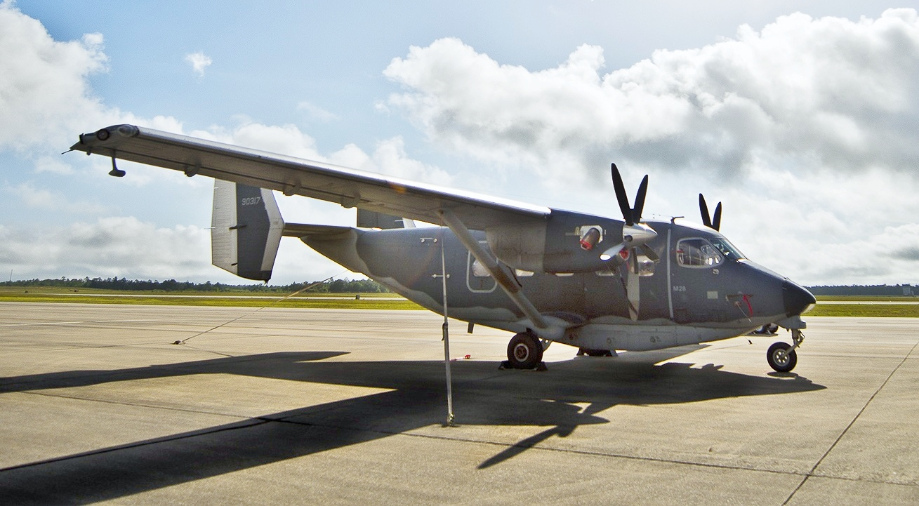 The Air Force Special Operations Command-owned C-145 Skytruck is now the primary aircraft on the 919th Special Operations Wing flightline at Duke Field. The aircraft is used in Aviation Foreign Internal Defense training, the new mission of the reserve wing. The wing’s 5th Special Operations Squadron currently trains active-duty and reserve Airmen on the new mission. The 711th Special Operations Squadron will be reserve operational AVFID squadron with its active-duty counterpart the 6th Special Operations Squadron. (U.S. Air Force photo/Tech. Sgt. Samuel King Jr.)